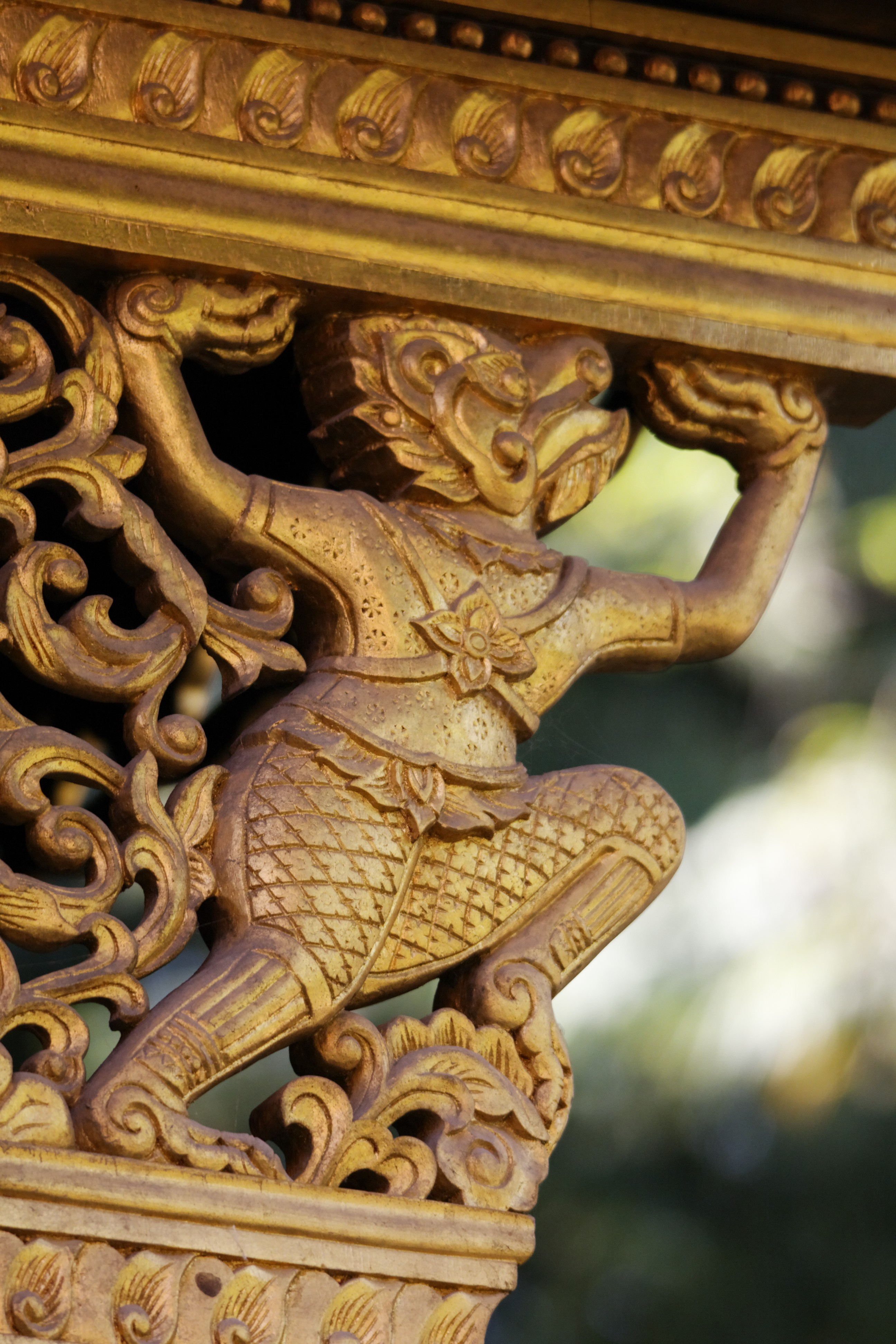 Wat Phra Keaw, Chiang Rai, Thailand